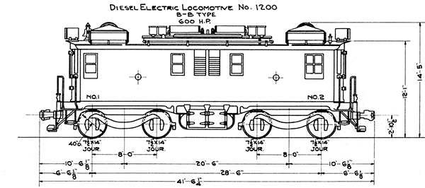 Diagram of Chicago and North Western Railroads's GE-Ingersoll Rand diesel-electric locomotive with road number 1200 delivered in August 1930. The locomotive pictured was the last built 600 hp unit and was 1957 scraped.